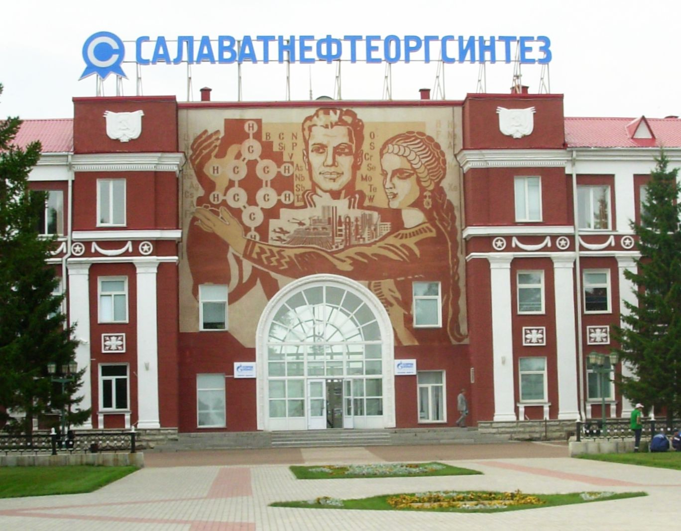 town